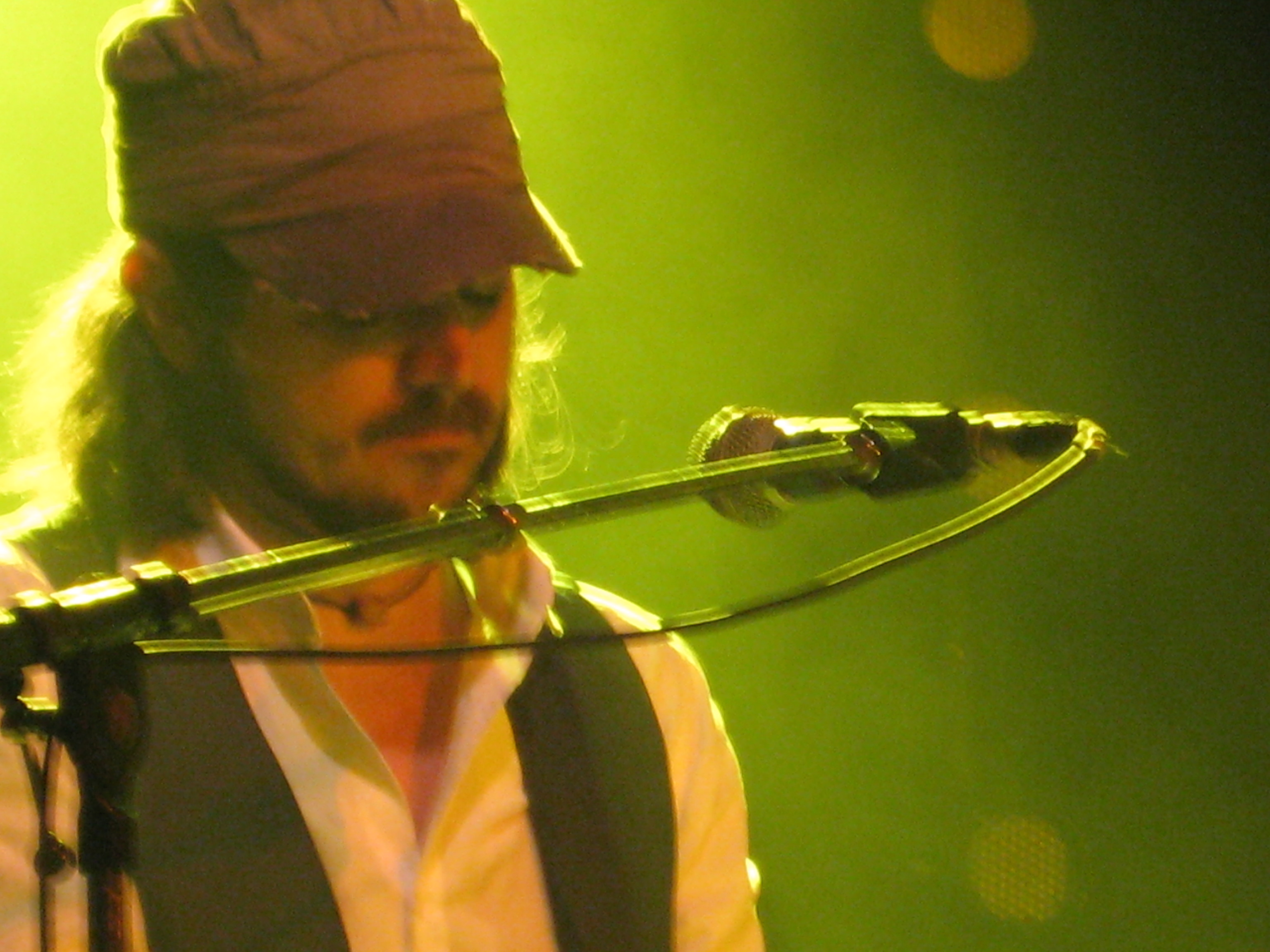 Cary Brothers performing at the Mod Club in Toronto